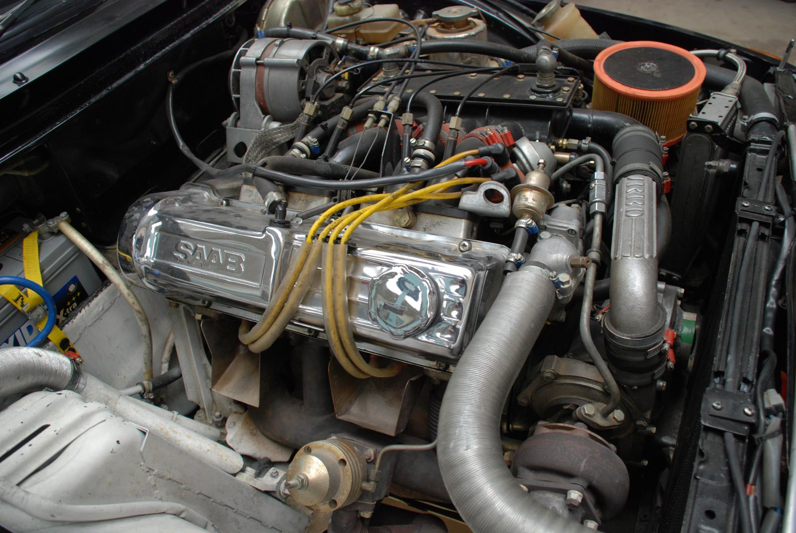 The engine of a Saab 99 Tubro Rally car at the Saab Museum in Trollhättan, Sweden.